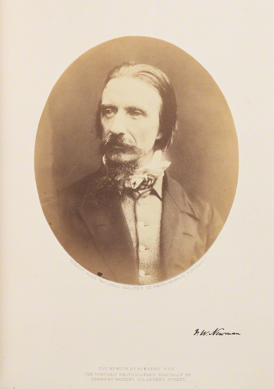 Portrait of Francis William Newman (1805–1897), English classical scholar and writer.